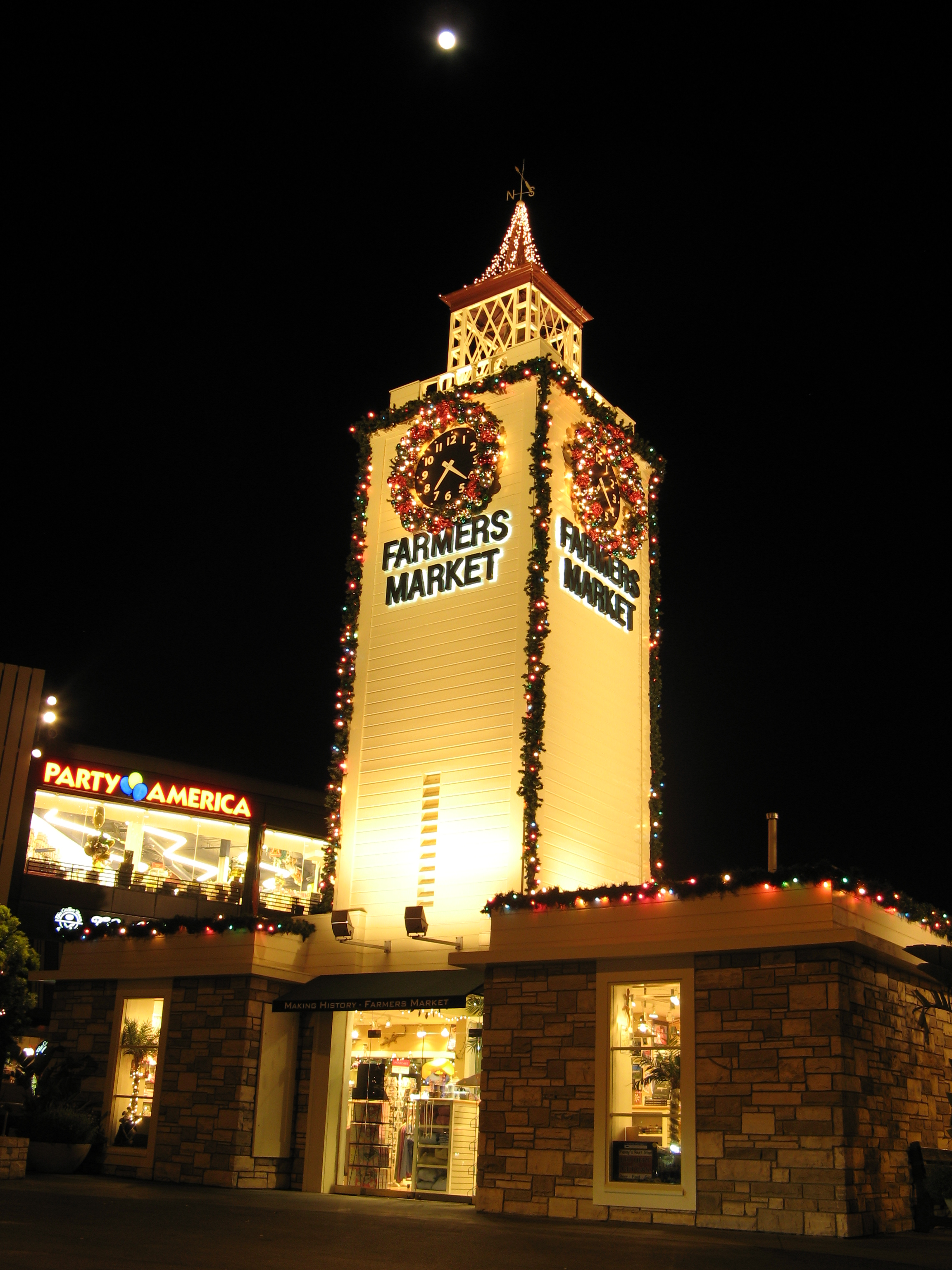 The Farmers Market during the holiday season of 2006-2007. Photographed and uploaded by user:Geographer